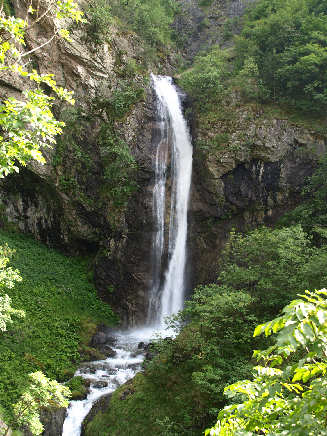 A waterfall in Rila Mountain, Bulgaria